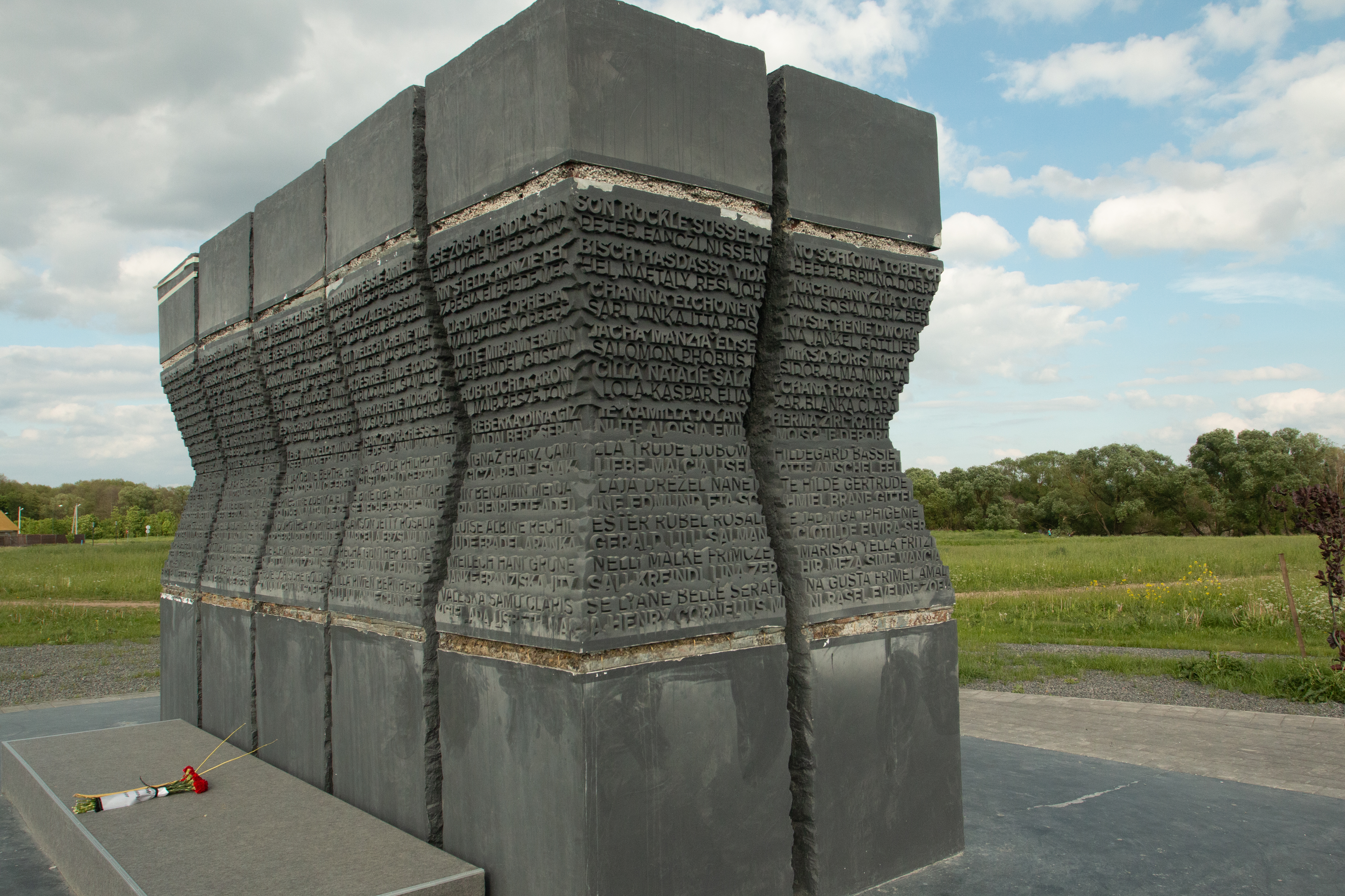 Memorial inaugurated in 2019, to the 65,000 Austrian Jewish victims of Maly Trostiniec concentration camp 1942-1944